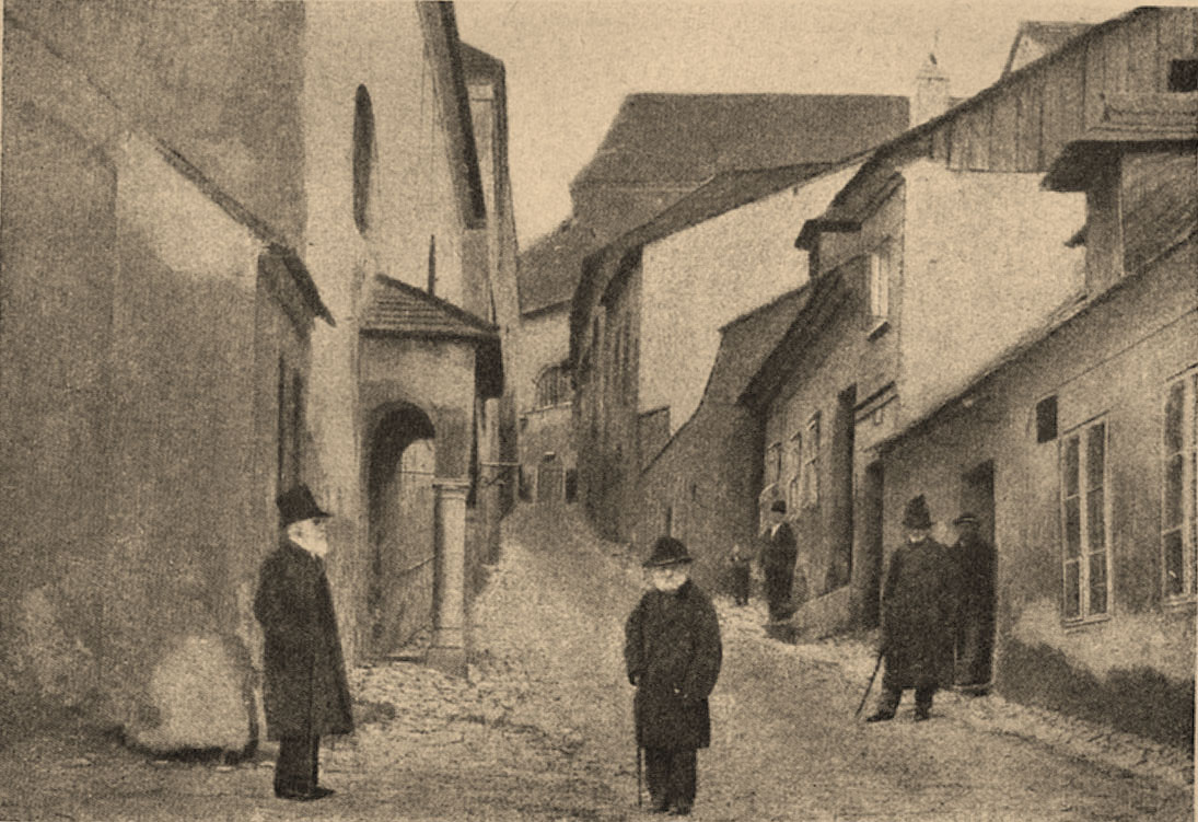 Illustration from Brockhaus and Efron Jewish Encyclopedia (1906—1913) It is one of the most famous photographs of the Mikulov Jewish ghetto. The picture shows a view from the "lower" synagogue towards the "upper" one. The lower synagogue is no longer standing, the upper one is still there.